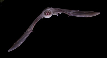 Common bent-wing bat flying, Miniopterus scheibersii